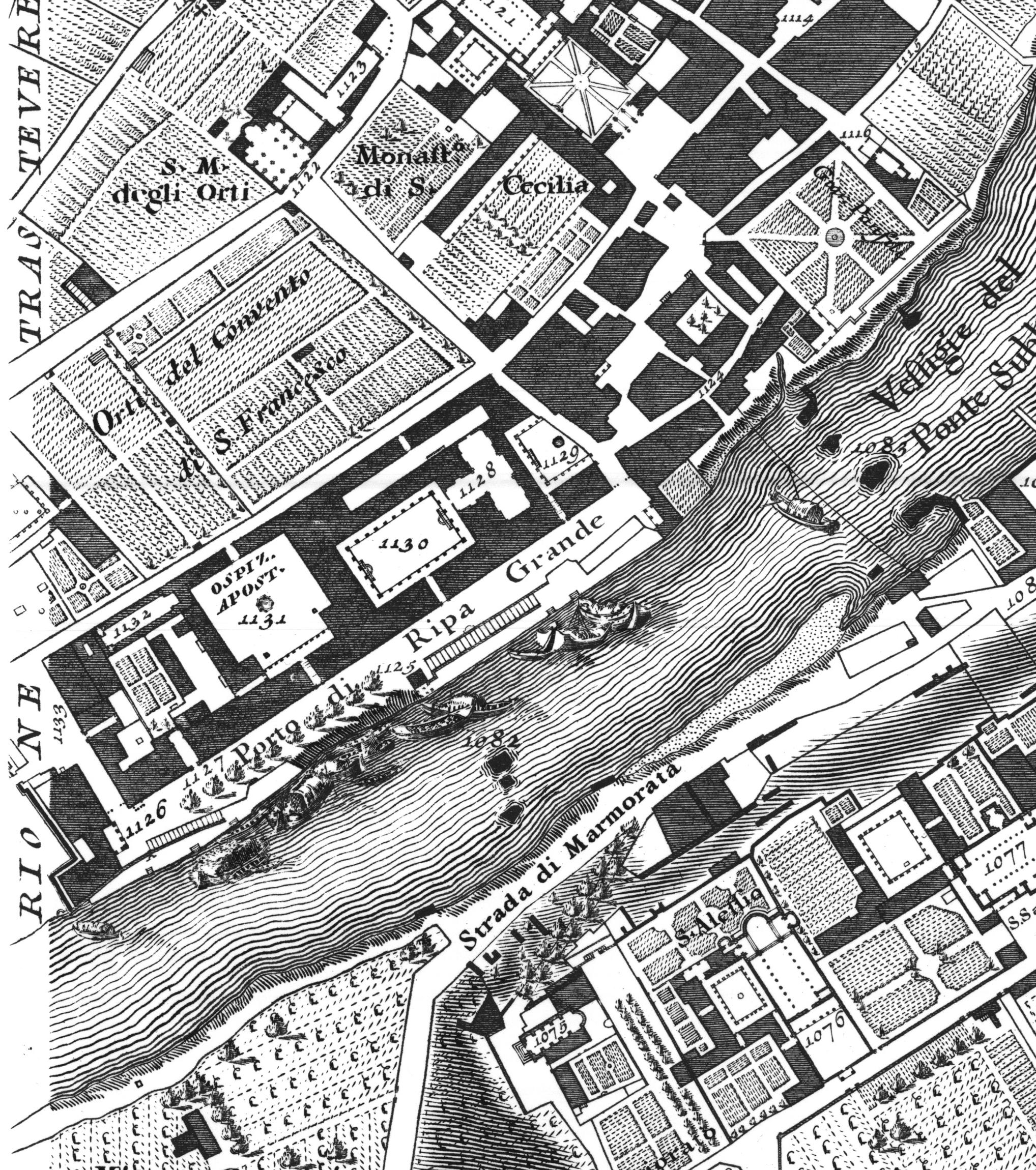 The New Plan of Rome by Giambattista Nolli part 8/12